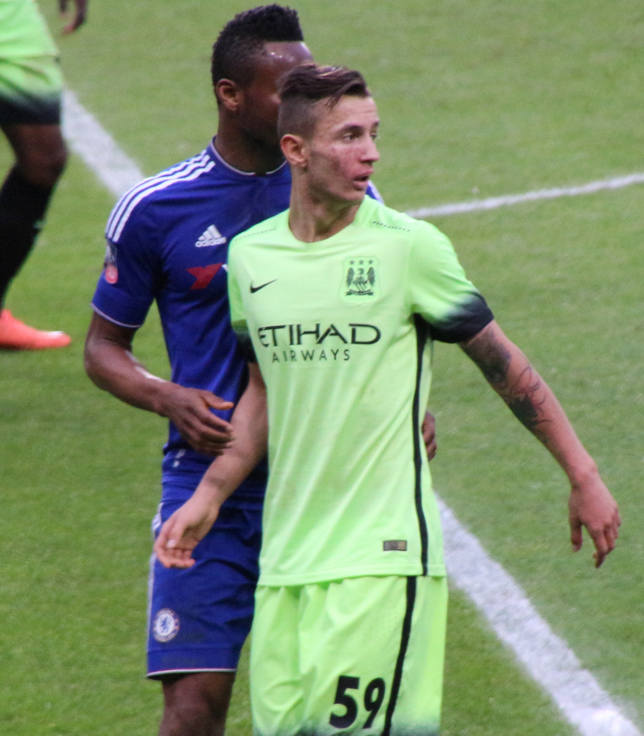 Bersant Celina. Chelsea 5-1 Manchester City, FA Cup 5th round 2015-16.